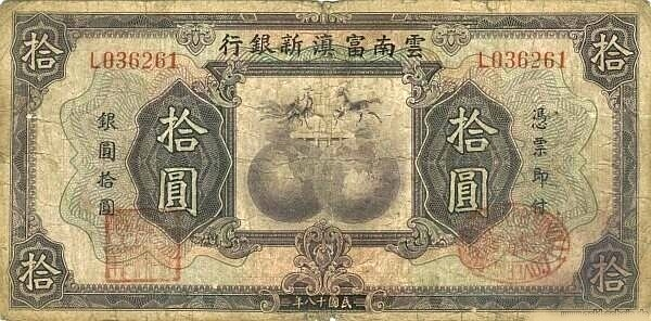 A Chinese provincial banknote issued by the New Fu-Tien bank during the period that the government of the Republic of China administered the Chinese Mainland.